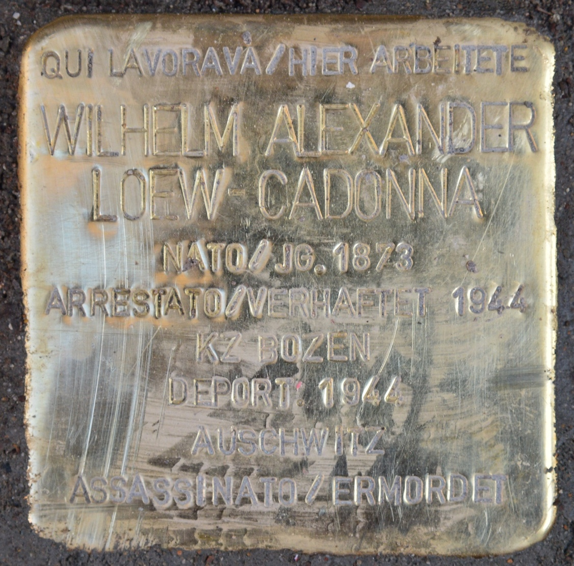 Stumbling Stone for Wilhelm Alexander Loew-Cadonna, placed in Bozen (South Tyrol)